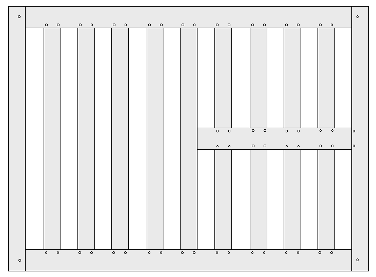 Diagram showing close studding. Left: no middle rail; right: with middle rail